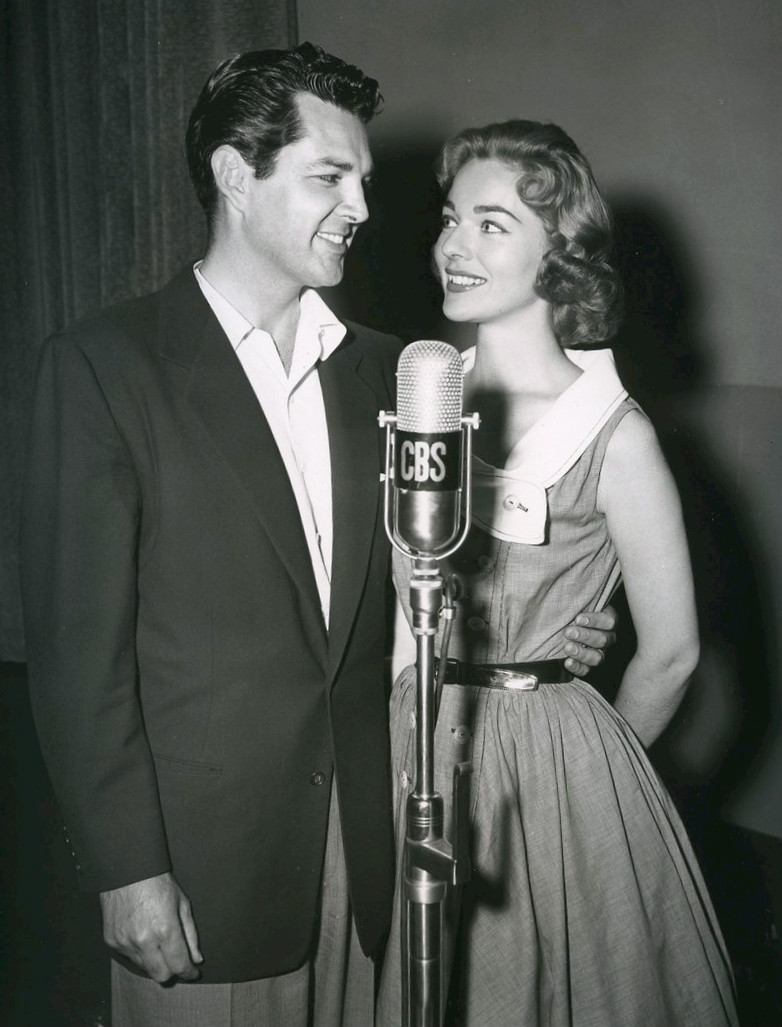 Photo of vocalists/actors Joan Weldon and Byron Palmer. The two were working as singers on a CBS Radio program in 1955.